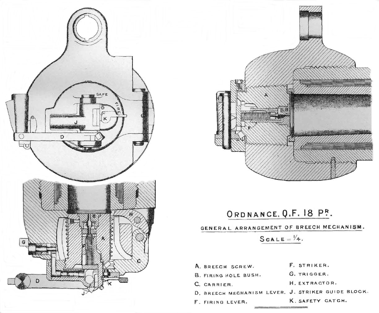 Diagrams showing breech mechanism of British QF 18 pounder Mk I & II field gun.